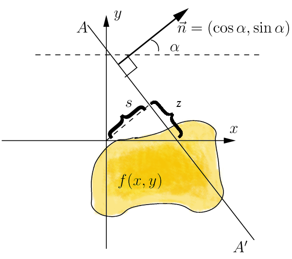 Radon transformation